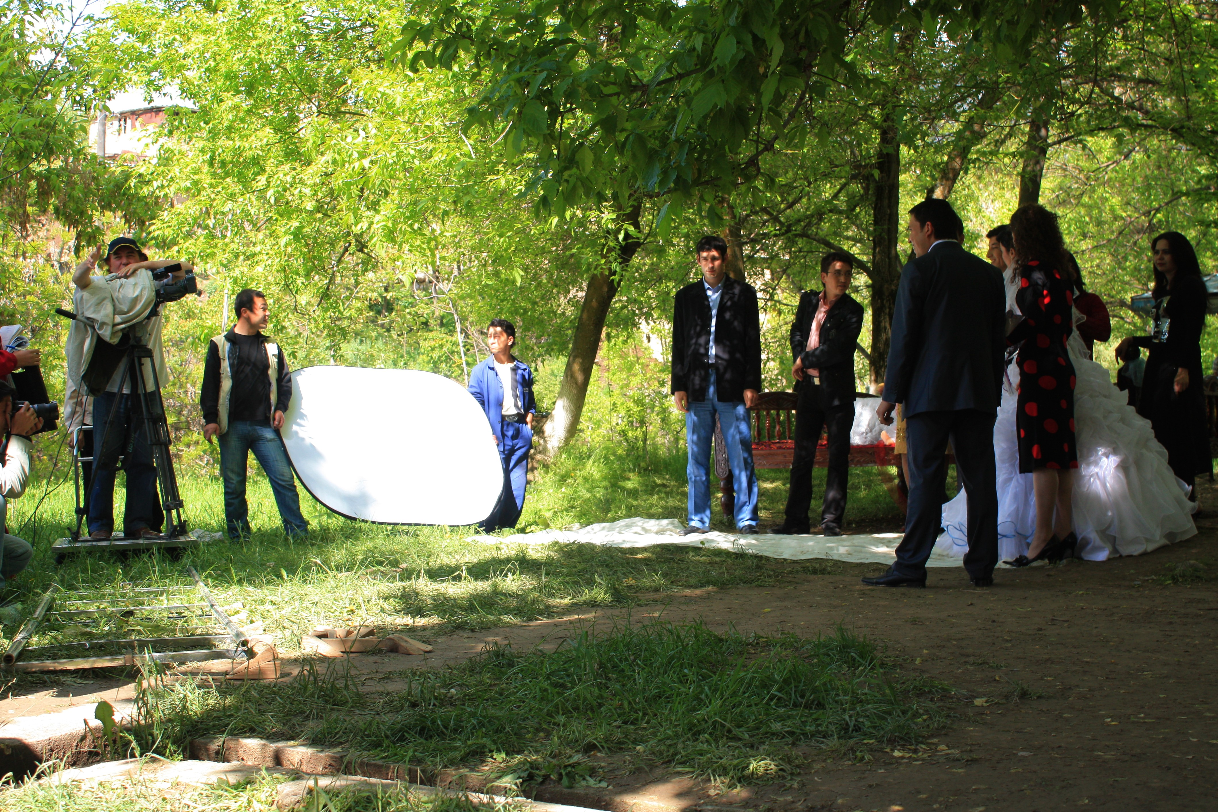 Film shooting in Soqoq (North of Tashkent, Uzbekistan), probably for an Uzbek TV channel. The scene was representing a marriage.